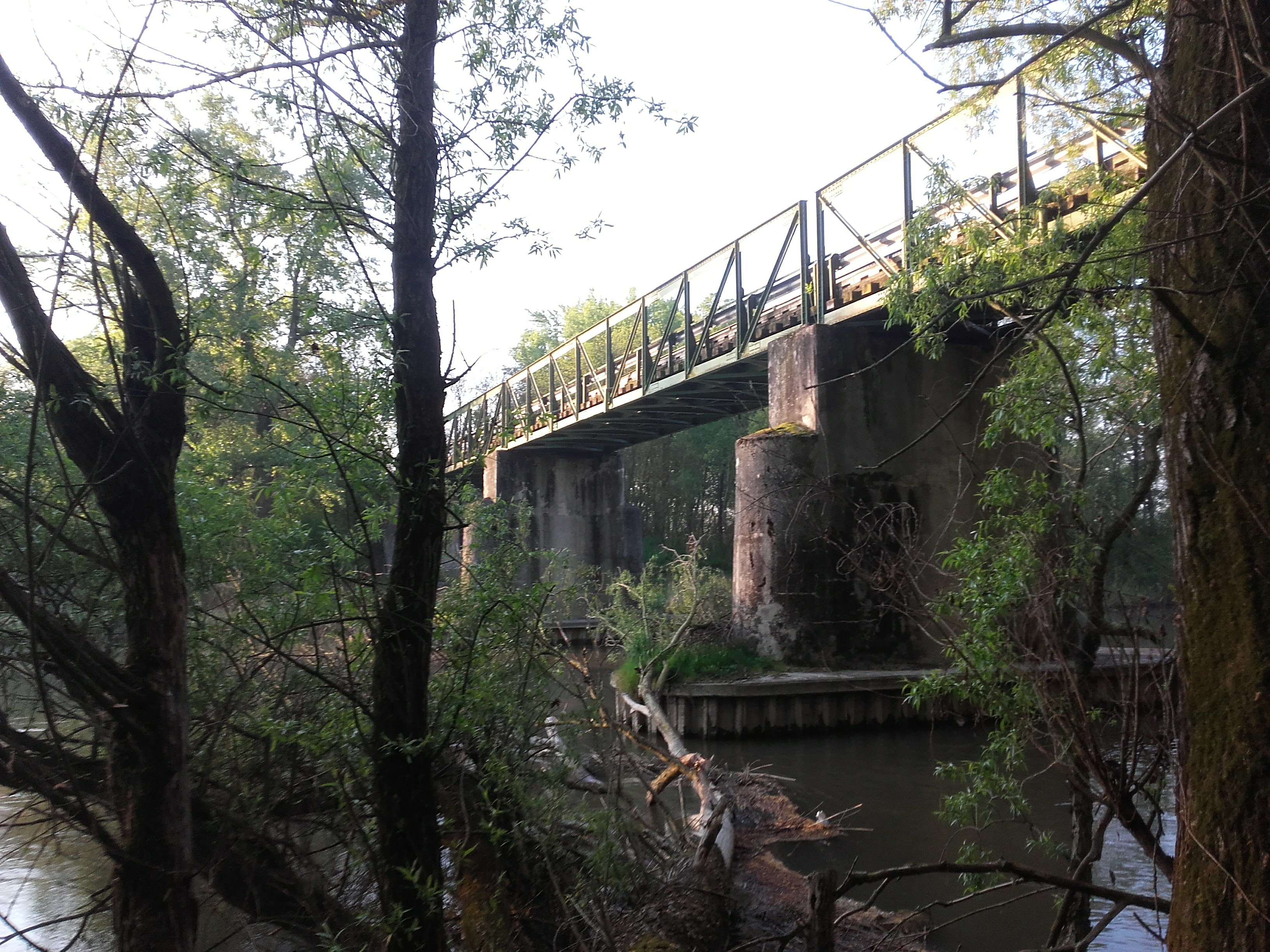 A bridge of the former Szigetközi Narrow Gauge Railway, called Bolgányi Bridge, over the Mosoni Duna, between Dunaszeg and Kunsziget.